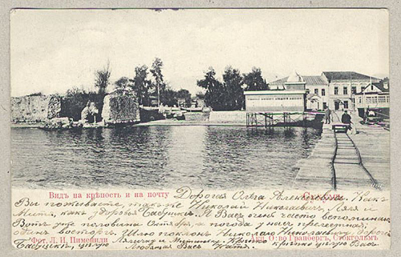 Post office and fortress, Sukhum (Sukhumi, Abkhazia)